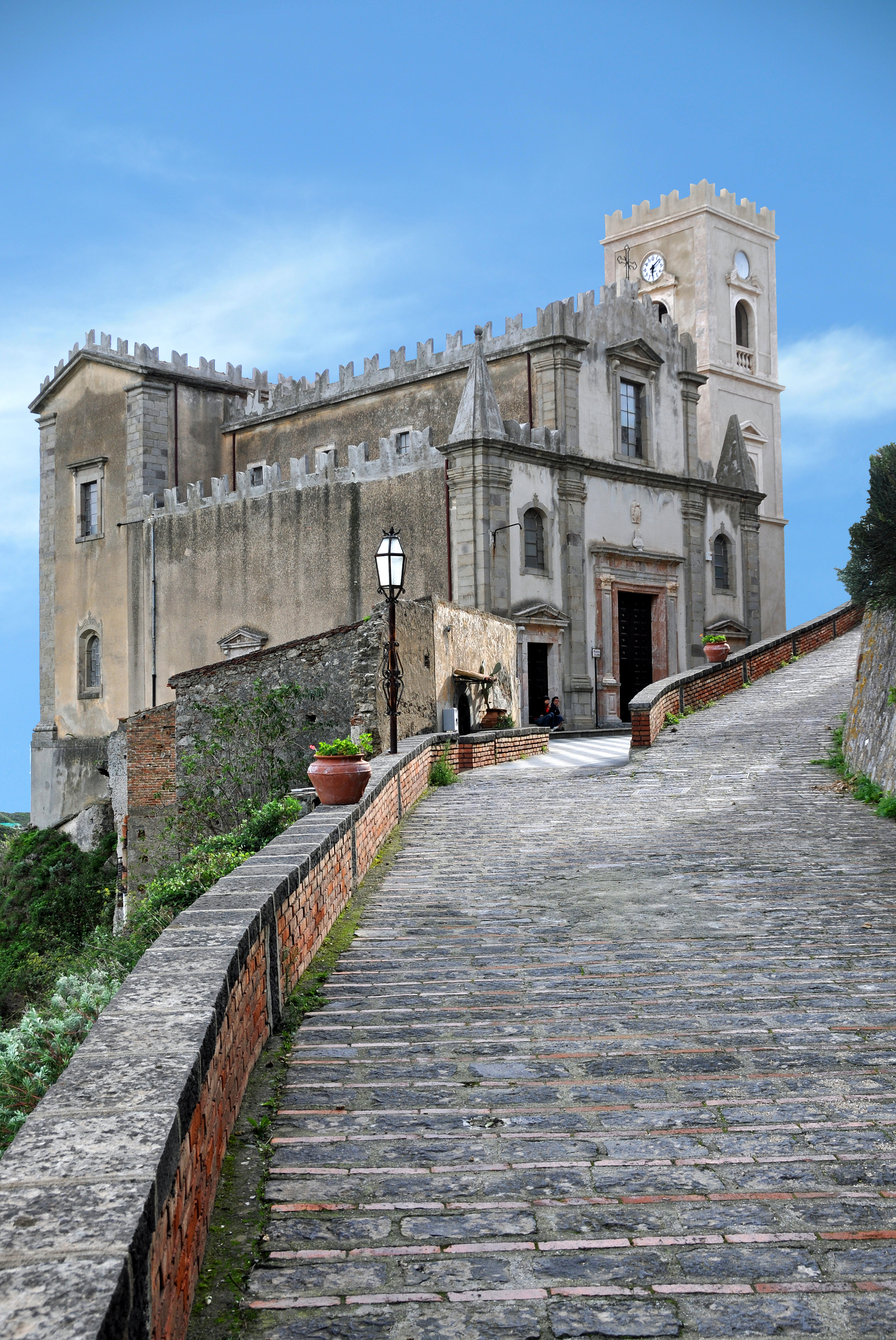 The church San Nicolò in Savoca, Sicily.